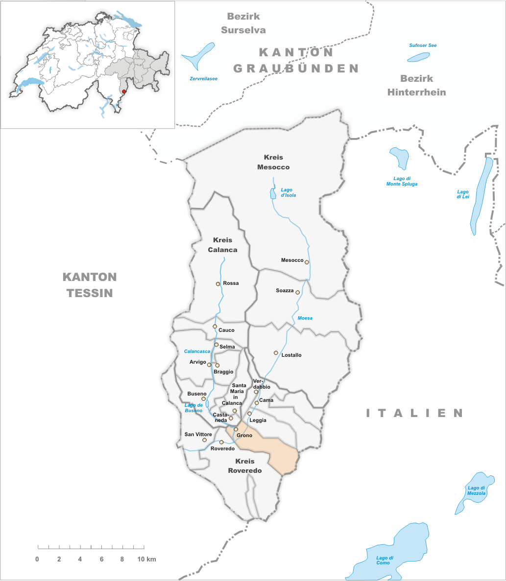 Municipality Grono